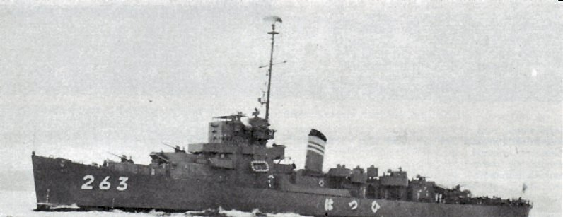 JMSDF Hatsuhi circa 1967.